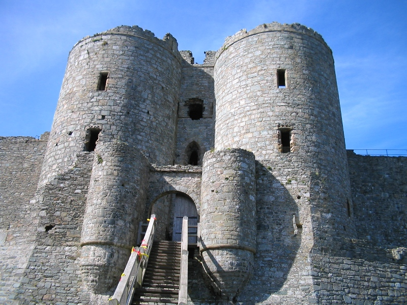 The main gatehouse of Harlech Castle. The steps were originally a drawbridge. As well as this formidably defended entrance, the castle also had a fortified dock so that it could be supplied by sea.